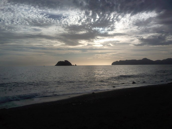 Sunset at Fatares beach, Cartagena (Spain)